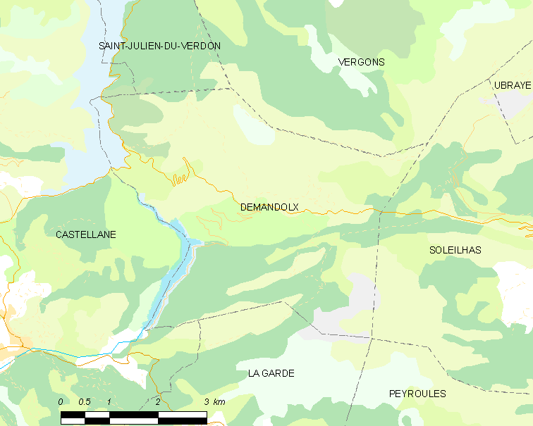 Map commune FR insee code 04069.png Légende